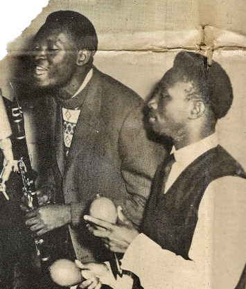 Edouard Lutula and Kalé-Roger of the Congolese band African Jazz in a recording studio. Photo from a feature on the band in the newspaper Actualités Africaines.